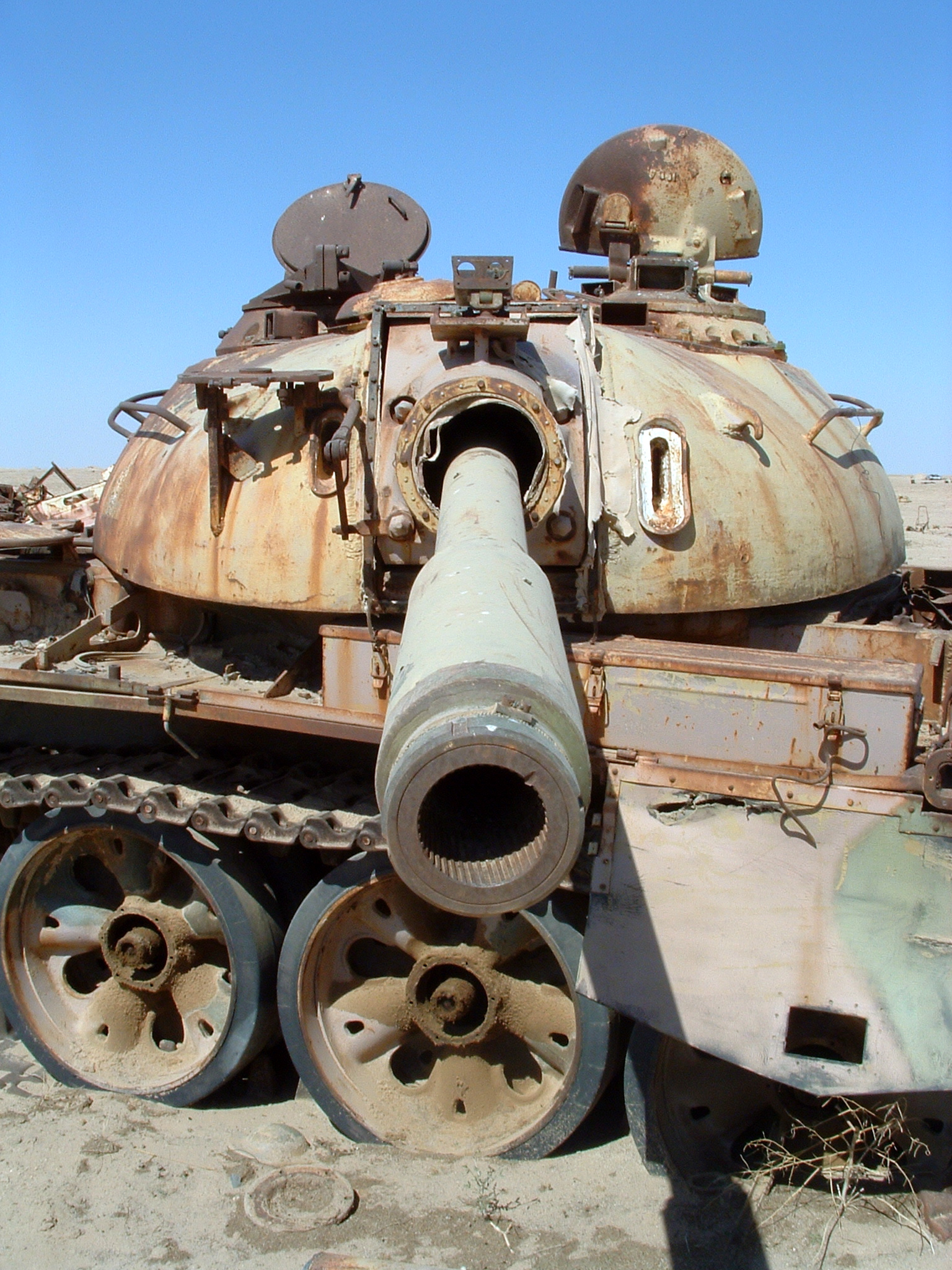 A rusting Type 69 tank at the Highway of Death in Iraq. Author Christiaan Briggs Time of creation 28 Feb, 2003 Licence GNU FDL and CC-by-SA Camera Fujifilm Finepix S304 Focal length 6.00 mm Shutter 1/340 Aperture f8.2 ISO Speed 100 (colour and light balance enhanced using iPhoto)